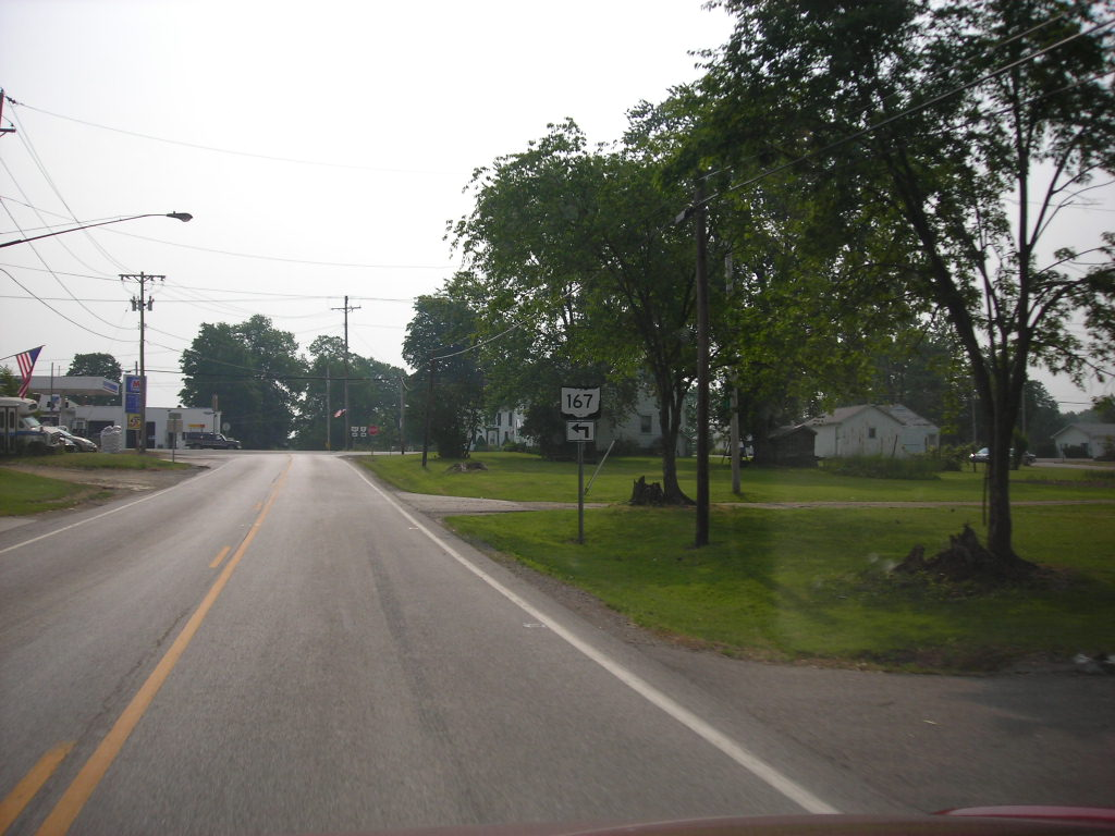 Ohio State Route 167 near Pierpont, Ohio.